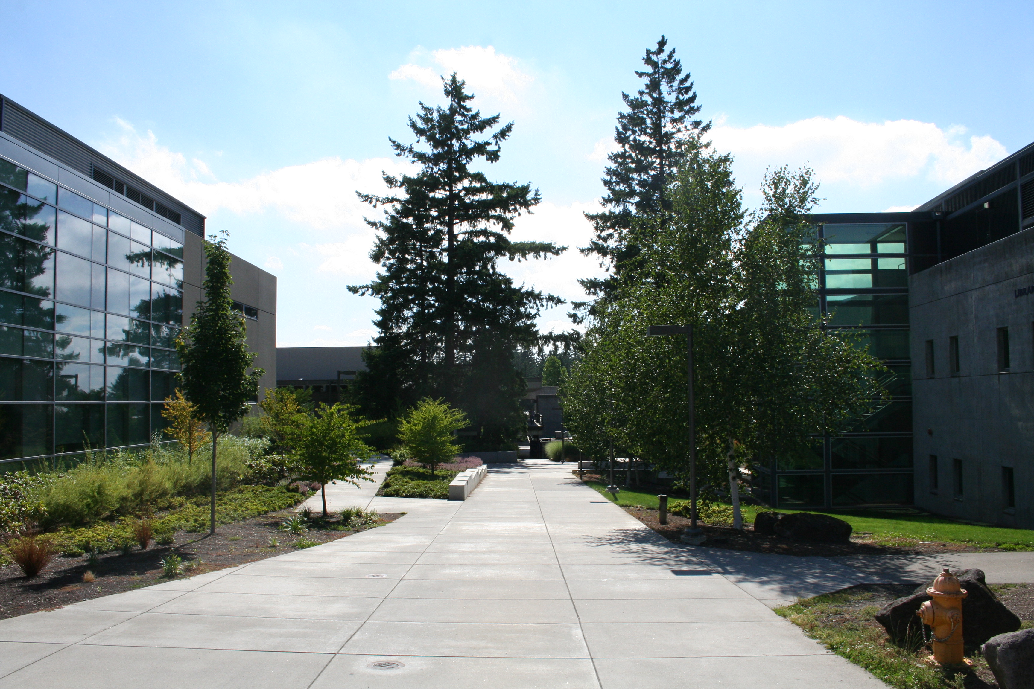 The entrance to PCC